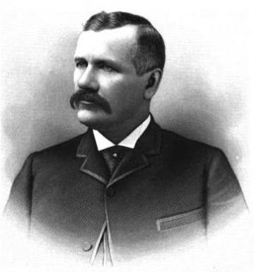 Daniel Hunt Gilman, lawyer. Maine-born, Civil War vet, moved to Seattle in 1883, 2 years later became of key figure in obtaining investment for the Seattle, Lake Shore and Eastern Railway; several later involvements in railway financing. One of the two men the Burke-Gilman Trail is named after.